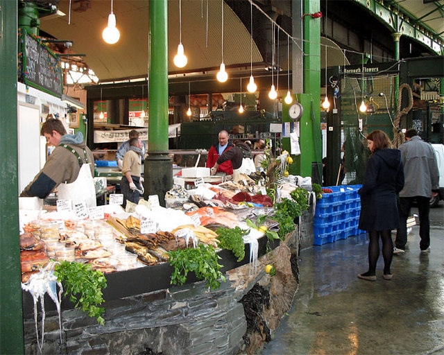 Fishmonger - Borough Market Manx Kippers and Octopus on display along with the more local delicacy, rollmop herring. The chalk board, top left, advertises the catch from the inshore boat at Whitby.